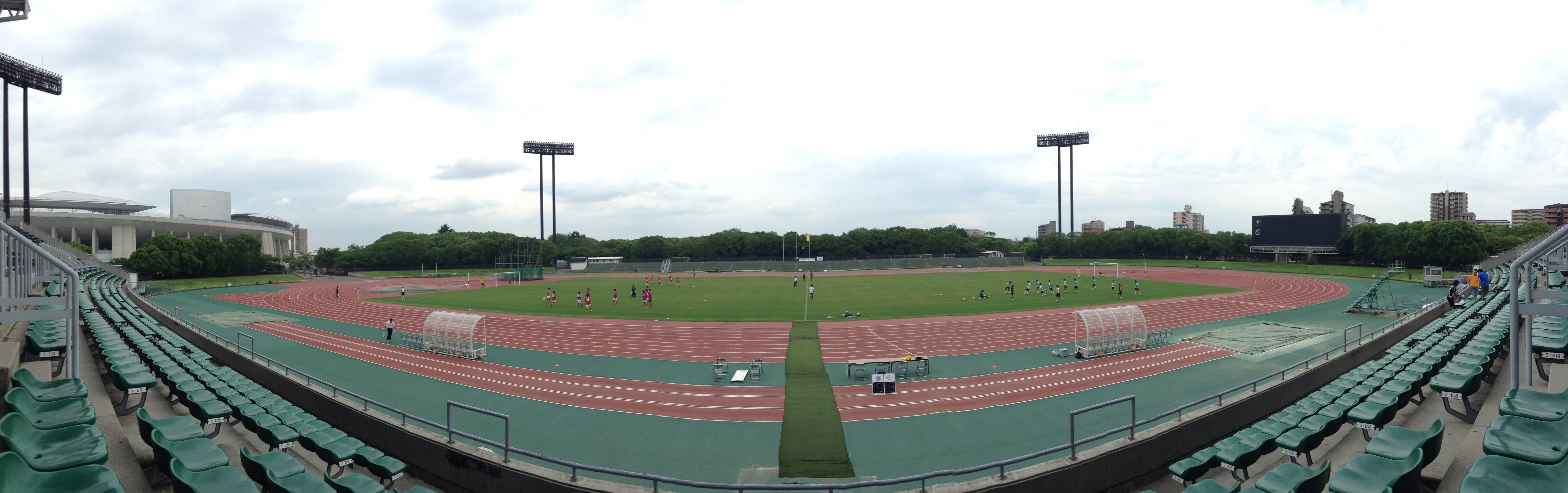 The panoramic photograph of Nagai Second Stadium（The regular-season game of Kansai Soccer League, 14 July, 2013）.